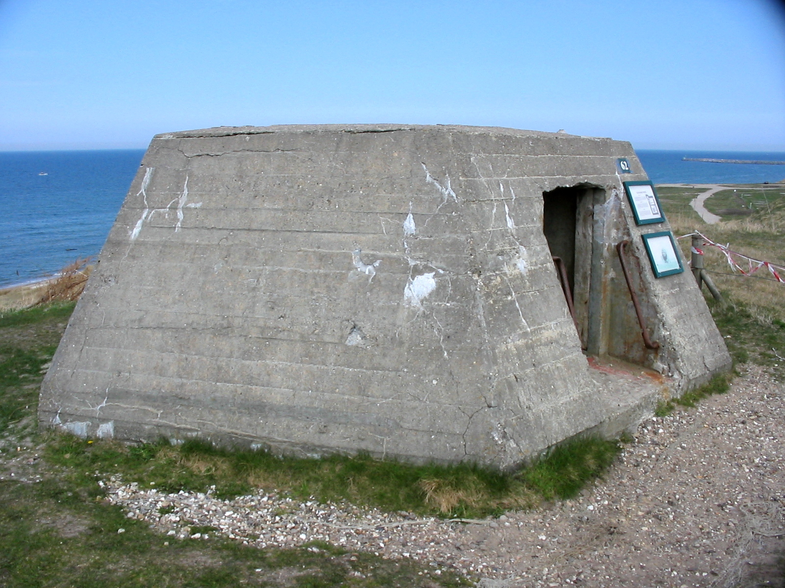 A bunker at Hirtshals beach, Denmark